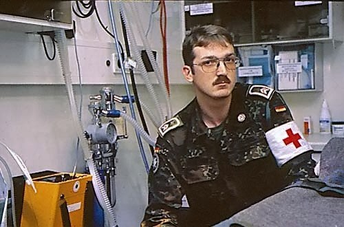 Occupying the German Red Cross station is Sgt. Brand in Croatia. NATO Implementation Force (IFOR).